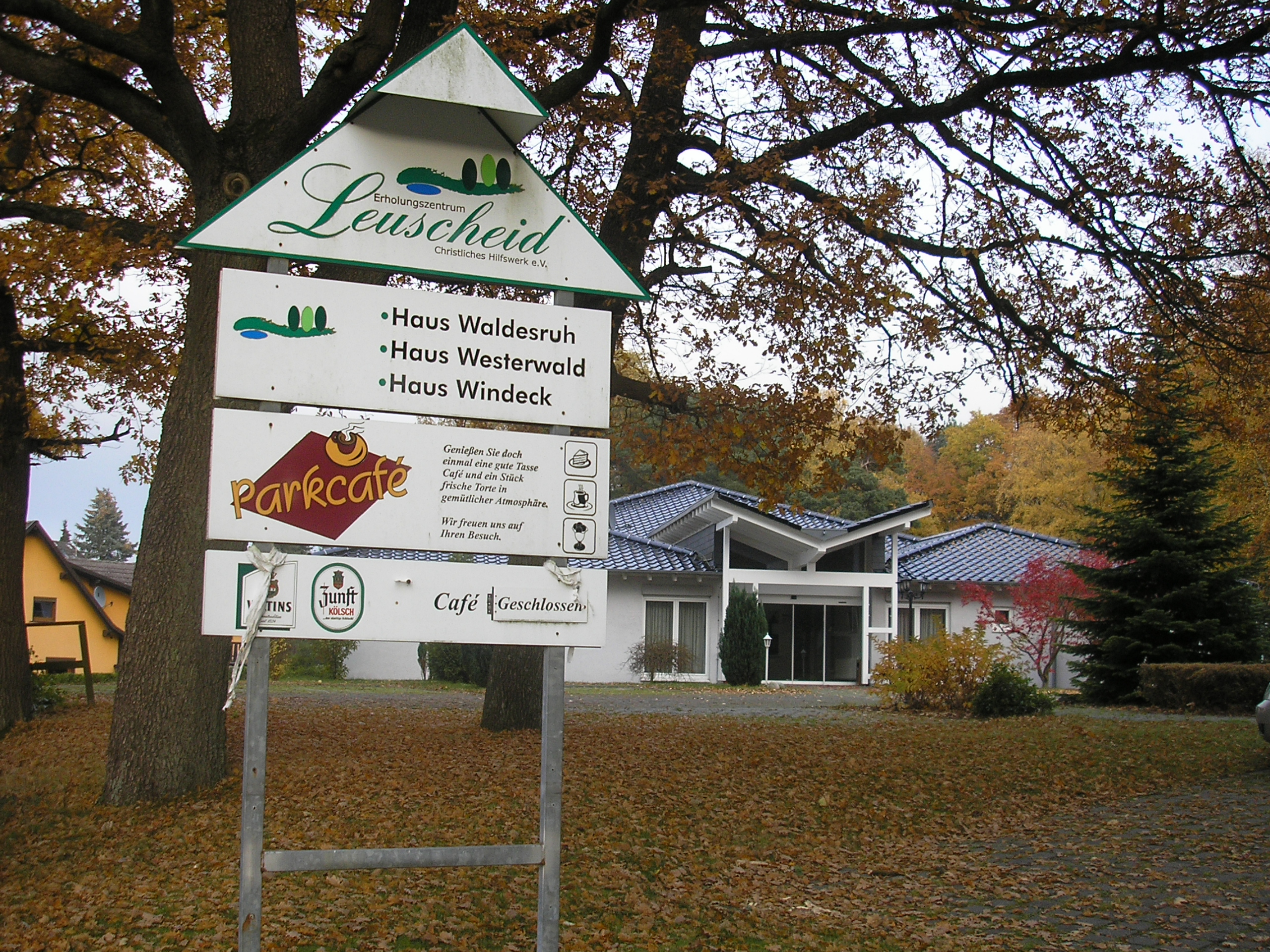 Erholungszentrum Leuscheid, Einrichtung geschlossen